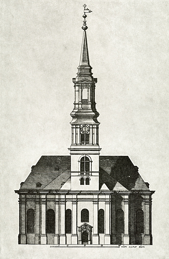 Vor Frelser Kirke (Church of Our Saviour), Copenhagen, Denmark. Drawing of the projected baroque steeple. From Den danske Virtuvius.